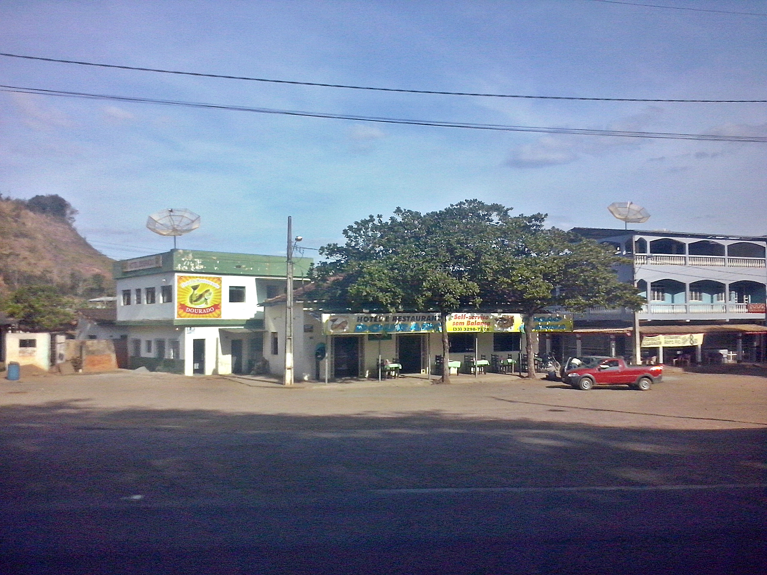 Trade in the BR-381 highway in Naque, Minas Gerais, Brazil.